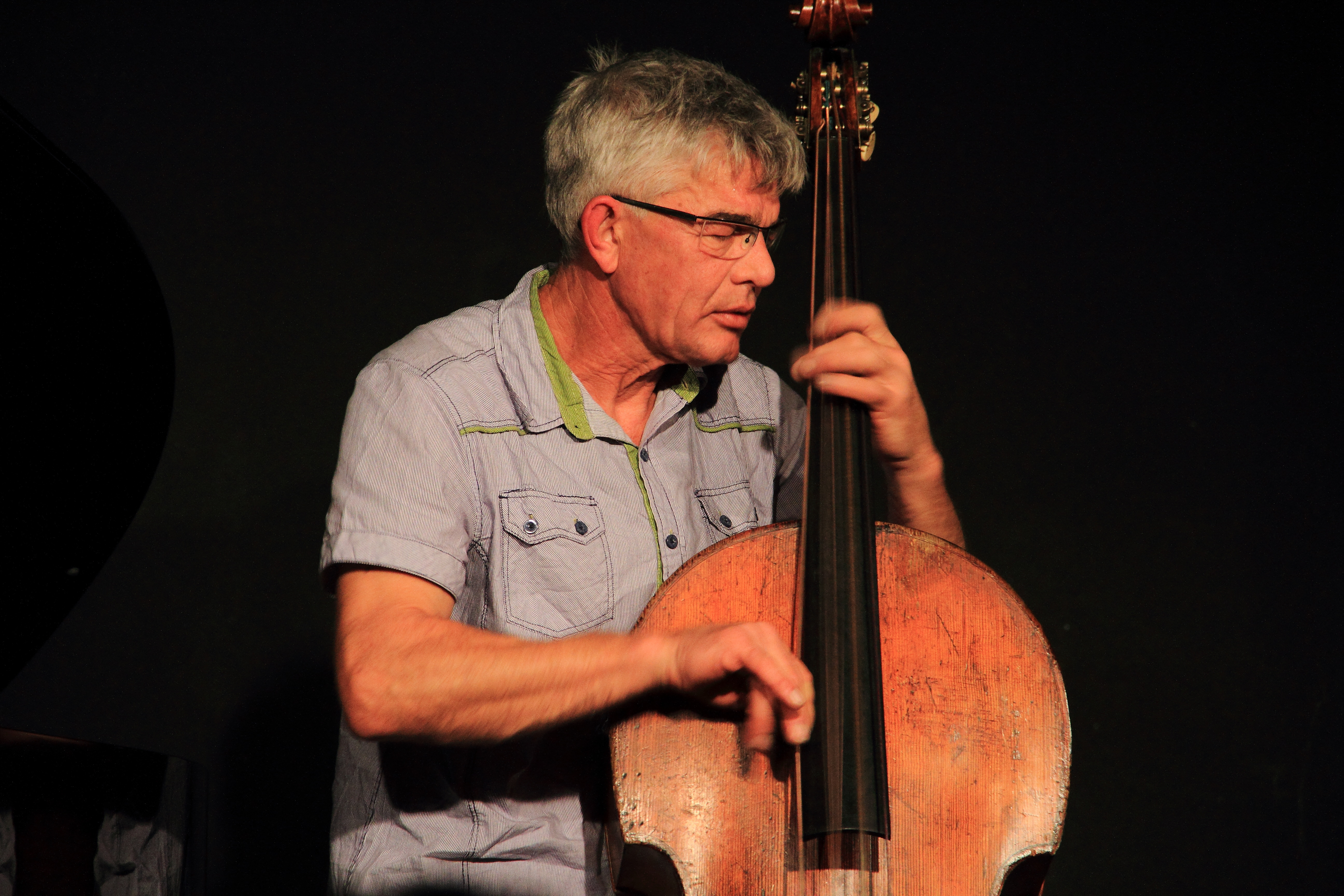 Concert of the quartet of Tony Buck (dr), Wilbert de Joode (db), Frank Gratkowski (cl, sax) & Achim Kaufmann (p) on 11.26.2014 at KULT, Niederstetten.